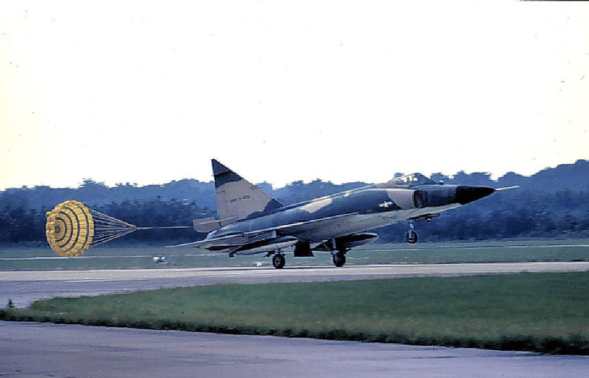 32d Fighter-Interceptor Squadron Convair F-102 Delta Dagger landing drogue parachute